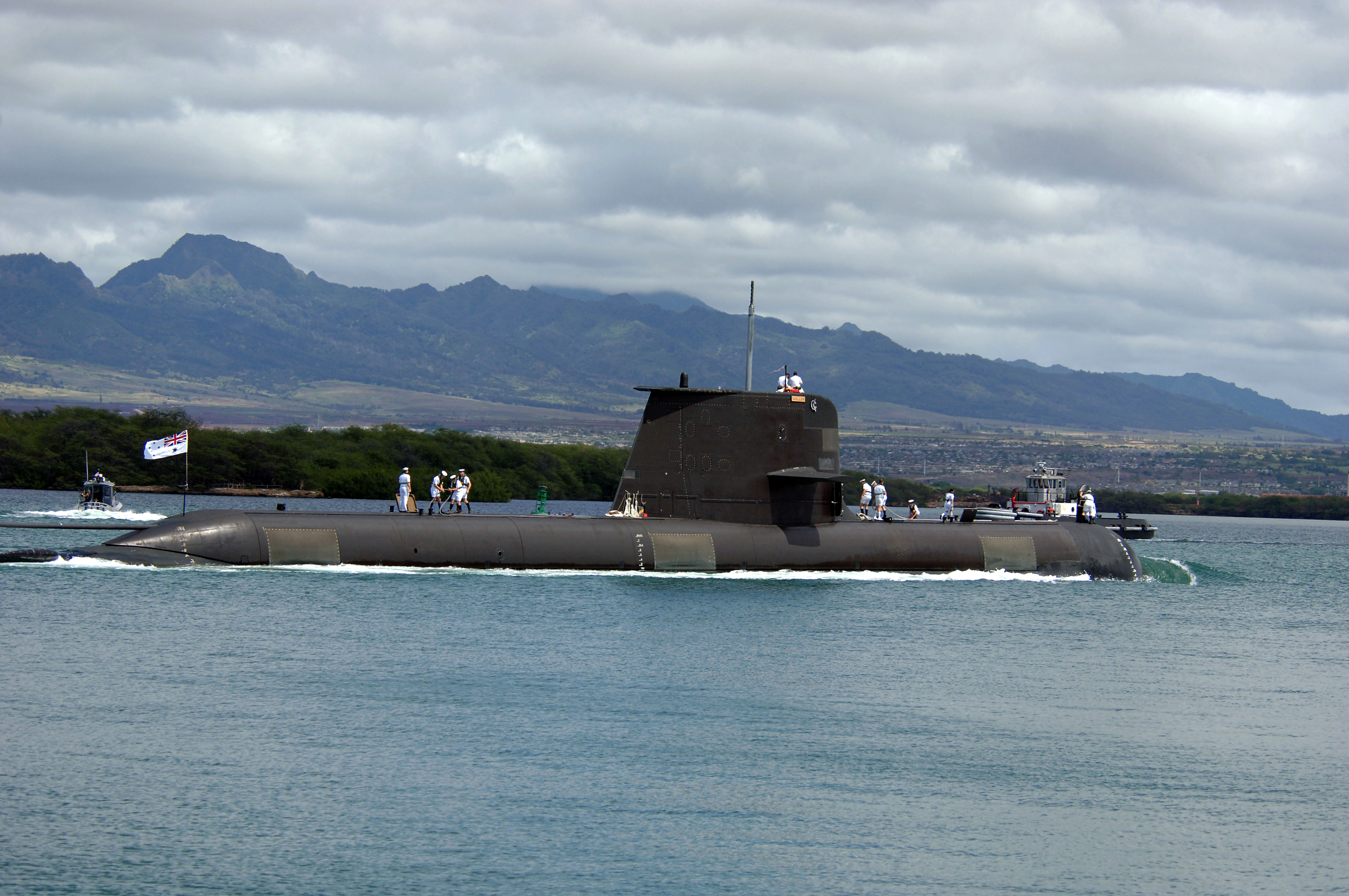 080625-N-3931M-031 PEARL HARBOR, Hawaii The Australian navy submarine HMAS Waller (SSG 75) pulls into Pearl harbor for a scheduled port call before starting Rim of the Pacific (RIMPAC) 2008. RIMPAC, the world's largest multinational exercise, is scheduled biennially by U.S. Pacific Fleet and takes place in the Hawaiian operating area during June 29 - July 31. Participants include Australia, Canada, Chile, Japan, Netherlands, Peru, Republic of Korea, Singapore, United Kingdom and the U.S. India, Colombia, Mexico, and Russia are scheduled to send observers.